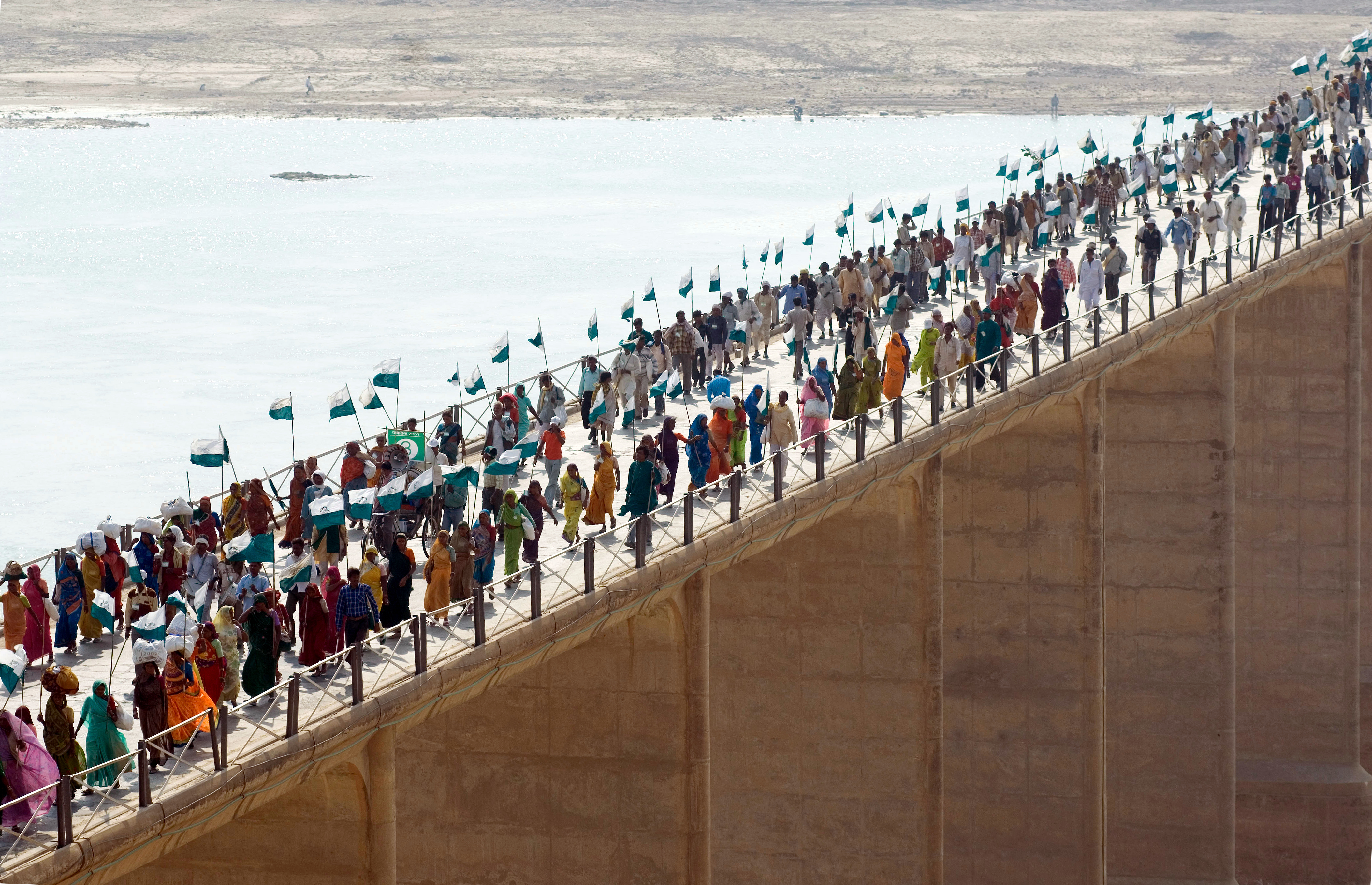 25,000 people walking to Delhi, bridge on Chambal river, Janadesh 2007, India.